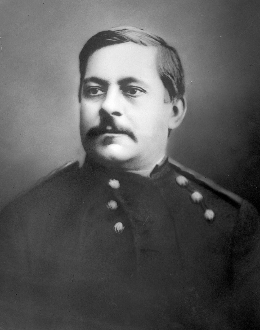 Marcus Reno in uniform.